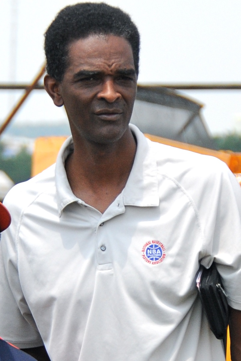 Ralph Sampson, the former NBA great, at his hometown African-American festival in 2010 (Harrisonburg, Va)